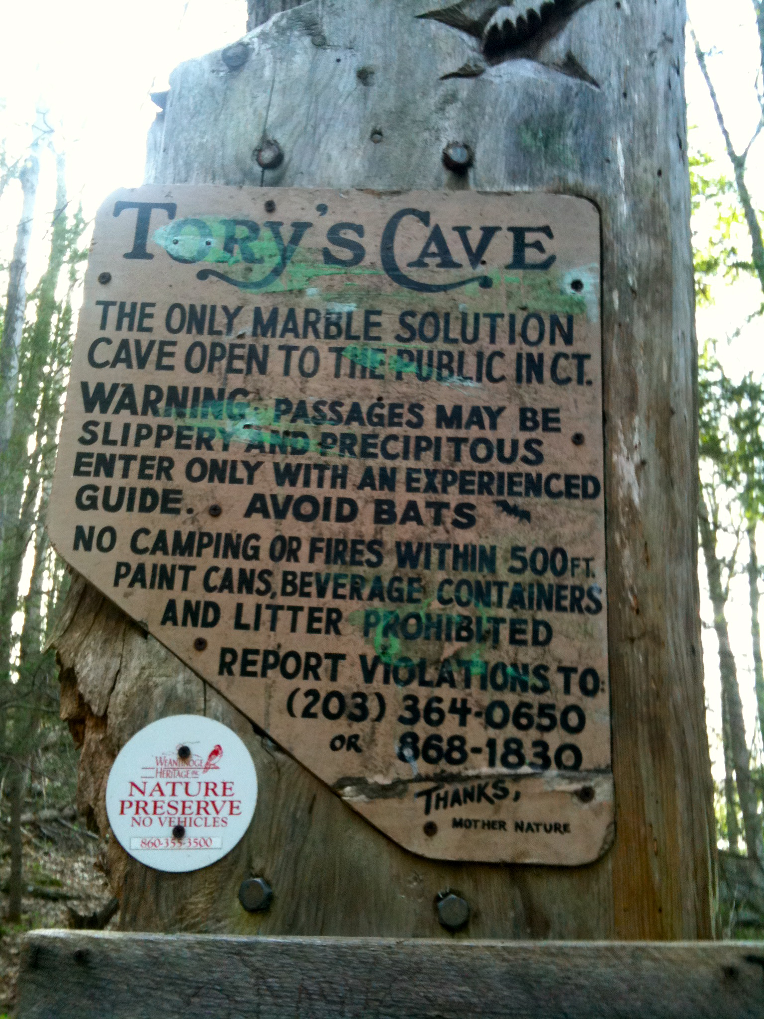 Housatonic Range Blue-Blazed Trail. Blue-Blazed CFPA linear foot path from Candlewood Mountain in New Milford and to Gaylordsville Cemetary in Gaylordsville. Housatonic Range CFPA Blue-Blazed Trail in New Milford. Tory's Cave sign at Tory's Cave on side trail.